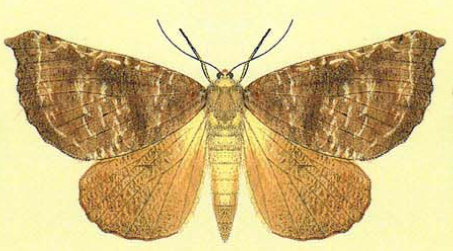 Image of Scotorythra megalophylla (Kona Giant Looper Moth), a female. It was extracted from Plate V, volume I from the book Fauna Hawaiiensis (see original source). This species was endemic to Hawaii and is now extinct.